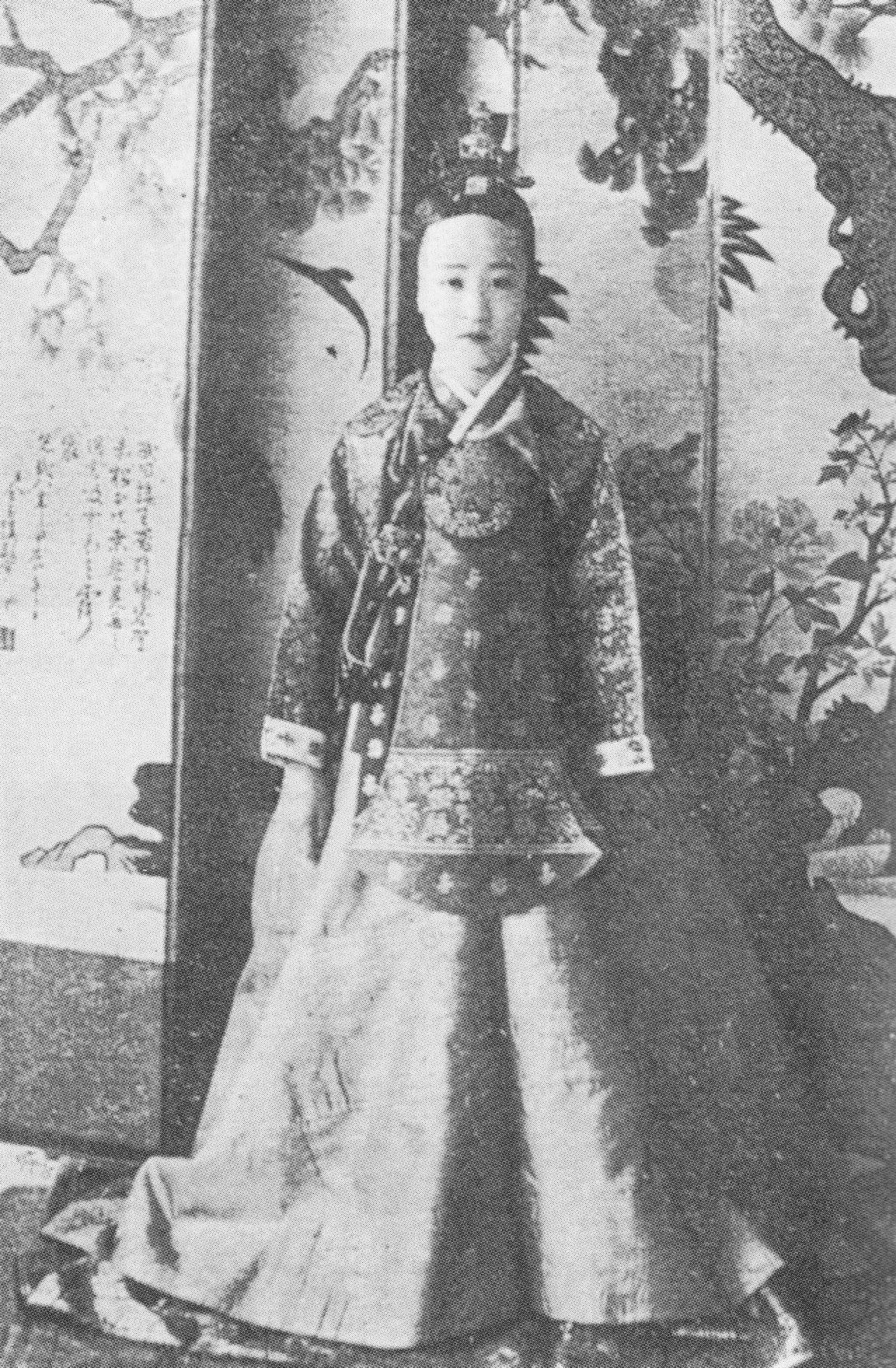 The photograph of Princess Dukhye (1912-1989), that was shot around 1923.